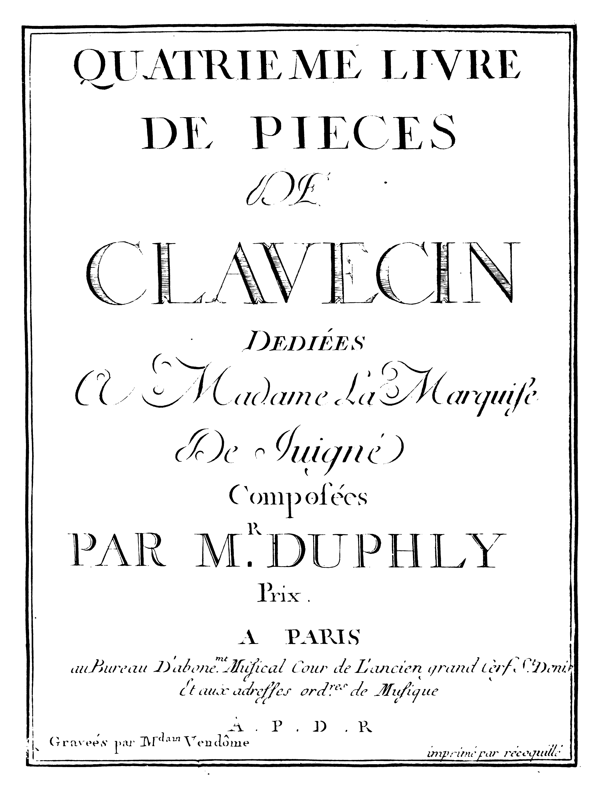 Jacques Duphly: Quatrième Livre de Pièces de Clavecin (1768) - title, dedication to the Marquise de Juigné.